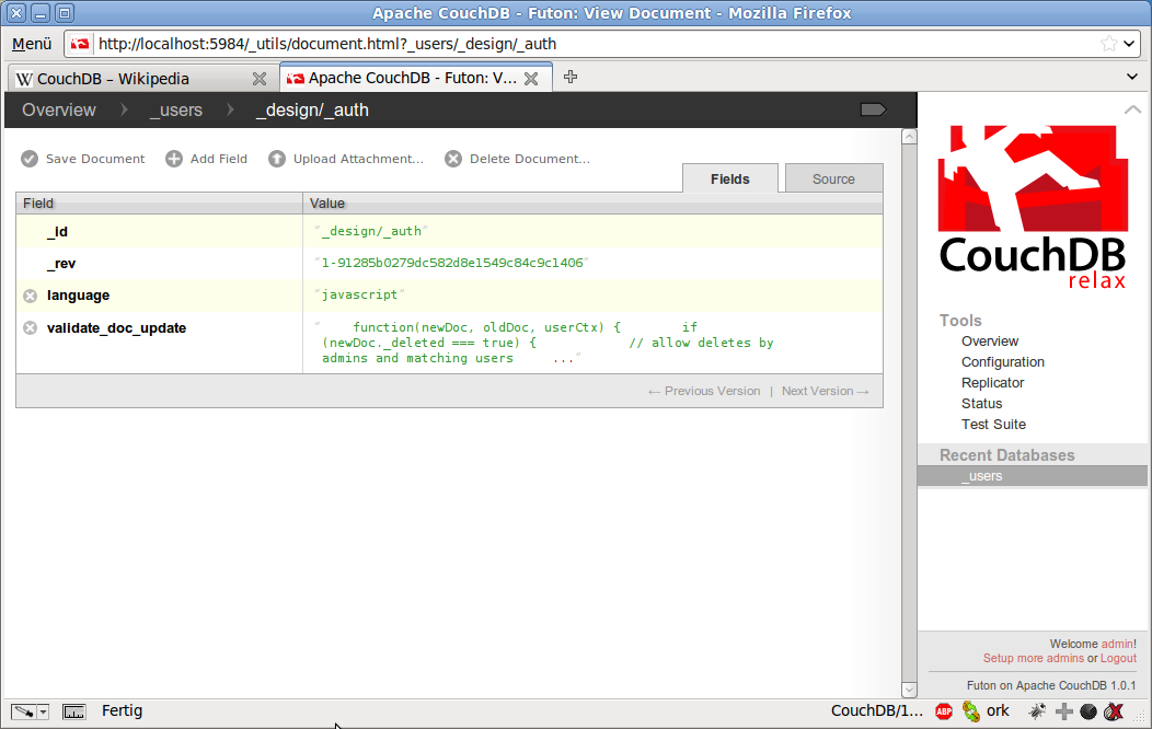 Couch DB Futon user database